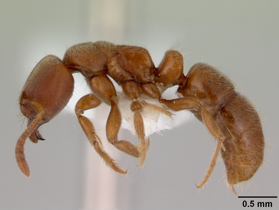 Profile view of ant Cryptopone rotundiceps specimen casent0172100.